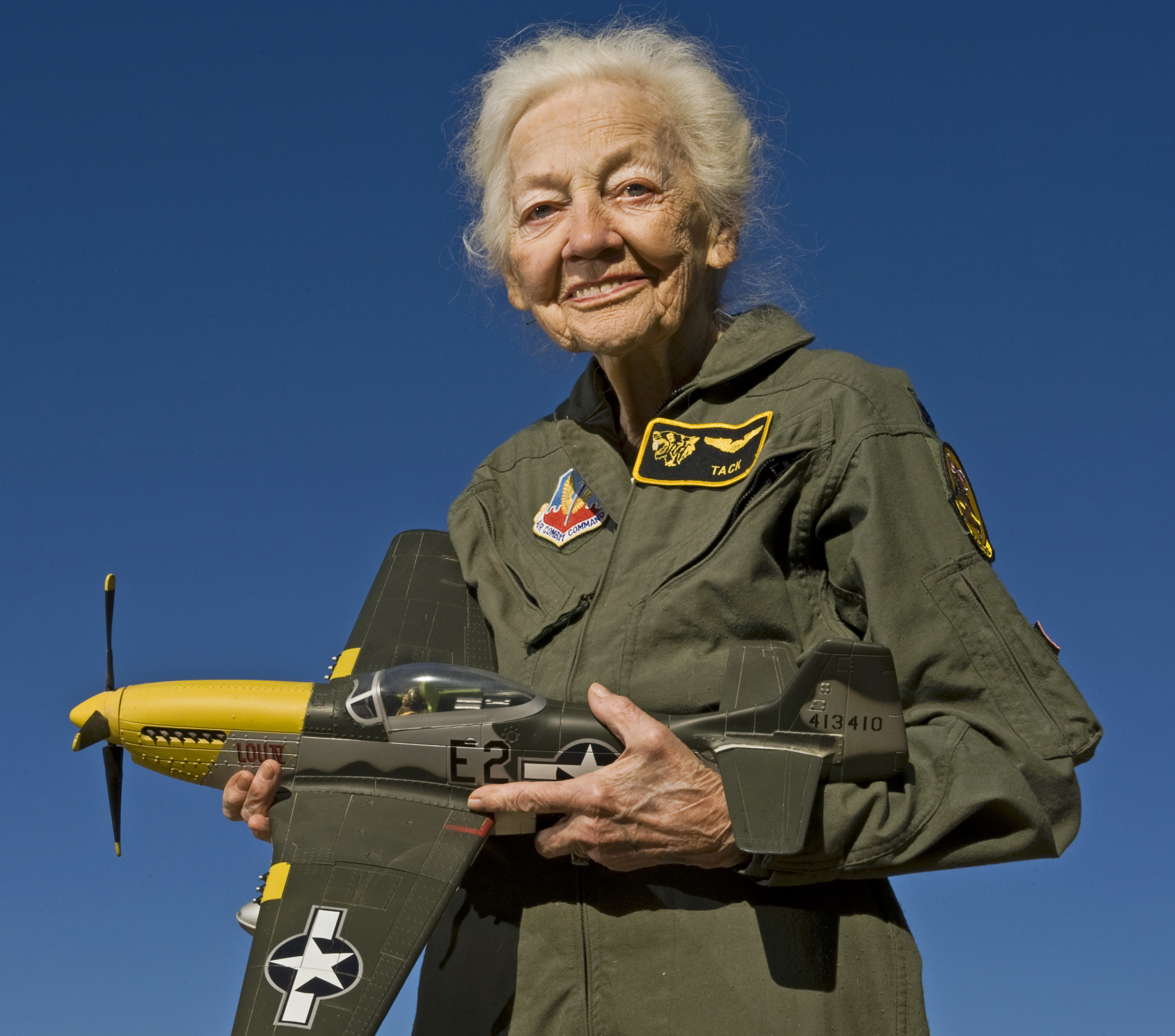 Betty “Tack” Blake, 91, holds a model of a P-51 Mustang, her favorite aircraft to fly, in front of her home in Scottsdale, Ariz. Blake joined the first class of WAFs (later named Women Airforce Service Pilots). During World War II, she was assigned as a transport pilot, ferrying 36 different types of aircraft across America.